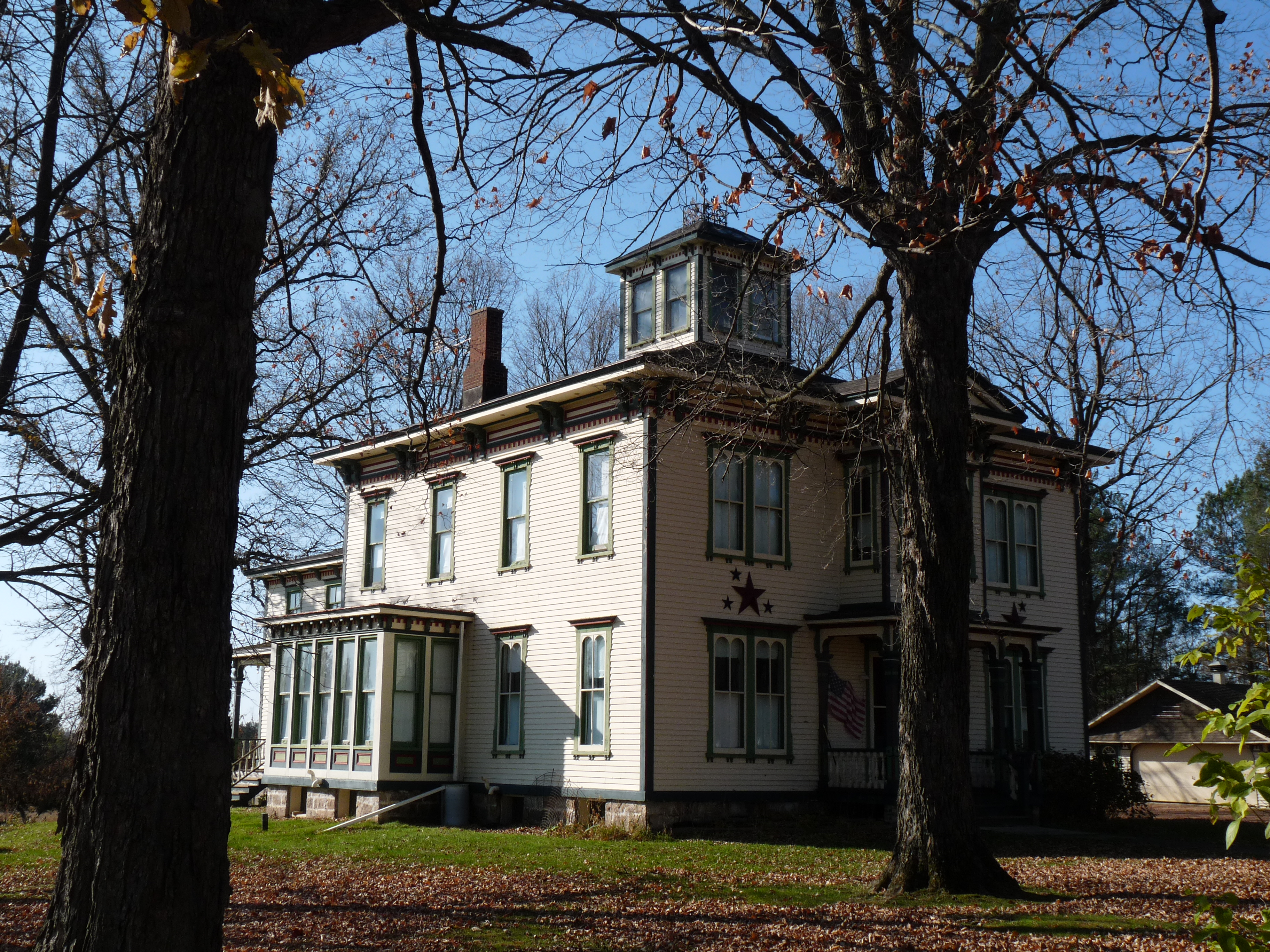 The Robert Schofield house in Greenwood, Wisconsin, was constructed around 1890 for a lumber man and farmer. Now it is on the National Register of Historic Places.